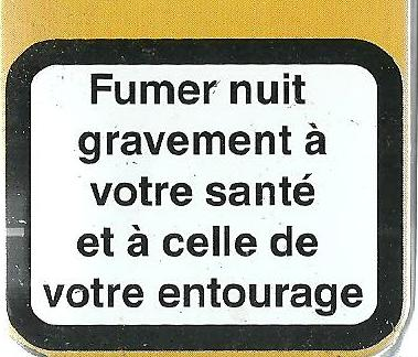 Warning against tobacco smoking - France